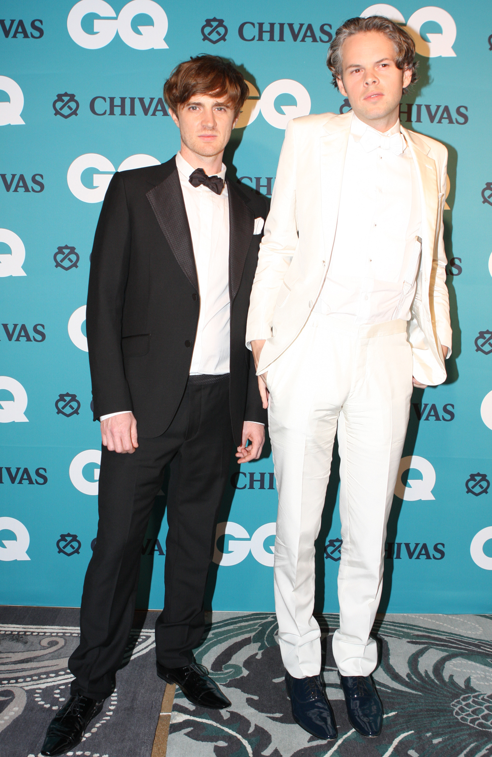 GQ Men Of The Year Awards 2012 - Arrivals